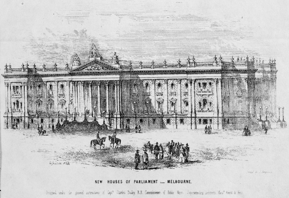 Parliament House design by Captain Palsey, published c1854, State Library Victoria, H18179